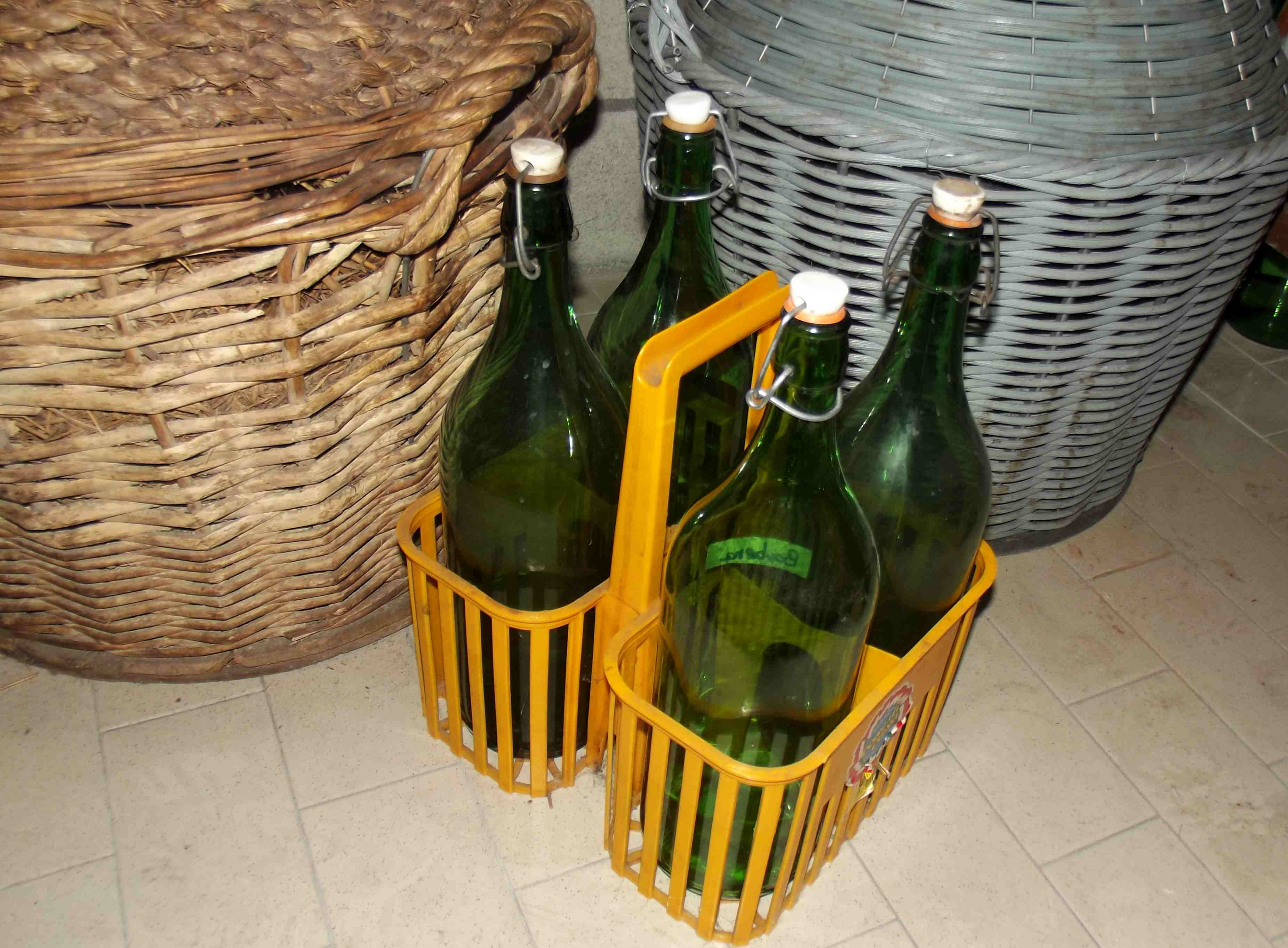 Bottiglioni (2 litres traditional italian bottles) and carboys